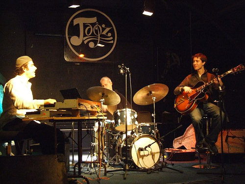 This is a photograph of the Randy Napoleon Trio on a tour of London. It illustrates the article Jared Gold (organ), which states that Gold toured the UK with the Randy Napoleon Trio.